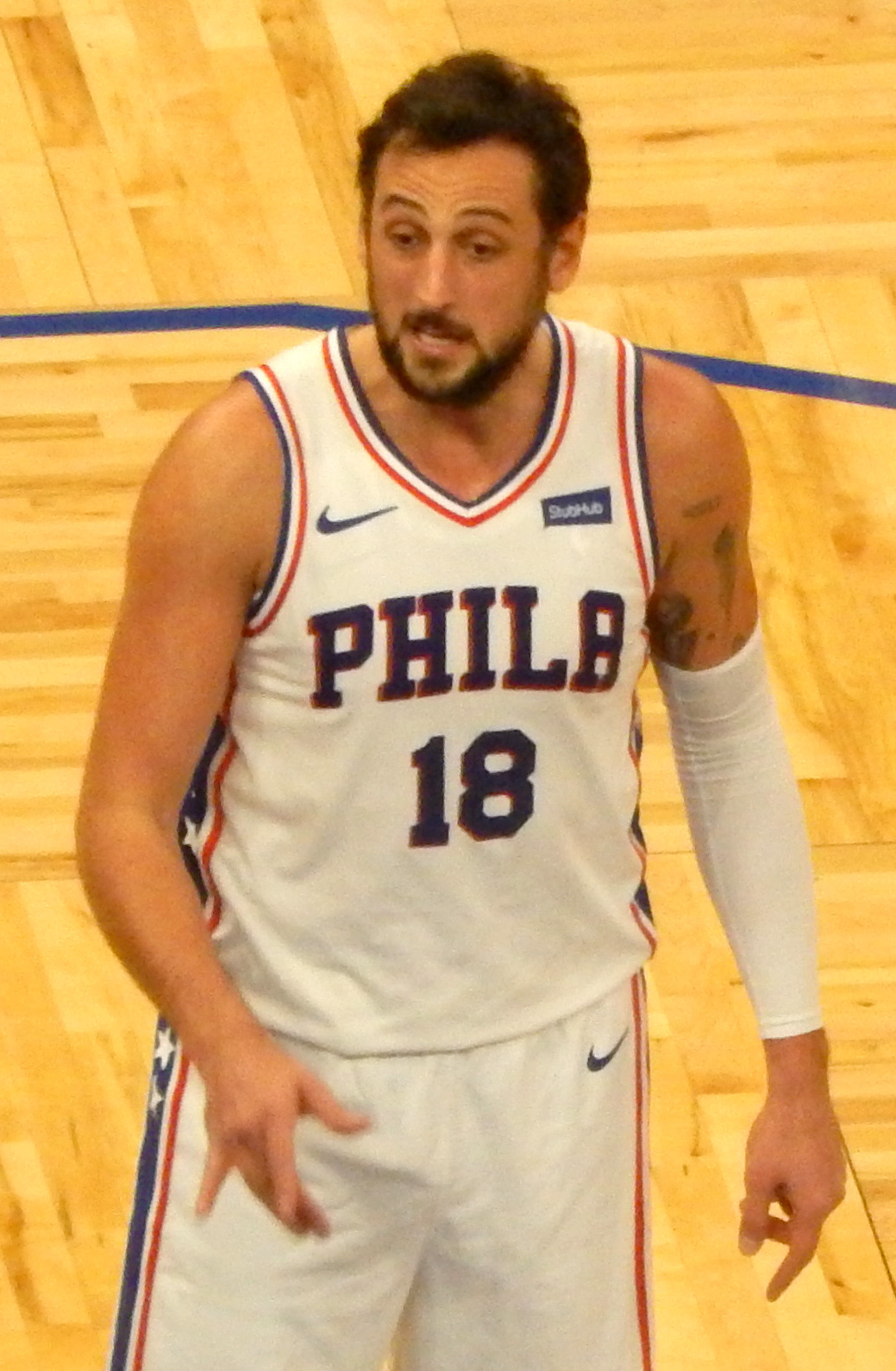 Marco Belinelli #18 of the Philadelphia 76ers against the Orlando Magic on March 22, 2018 at Amway Arena in Orlando, Florida.